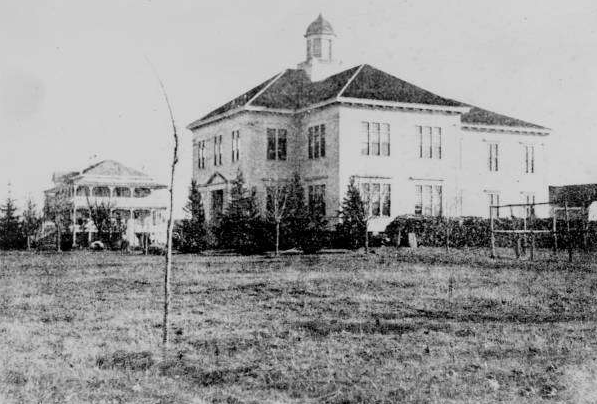 Albany College campus buildings, exterior